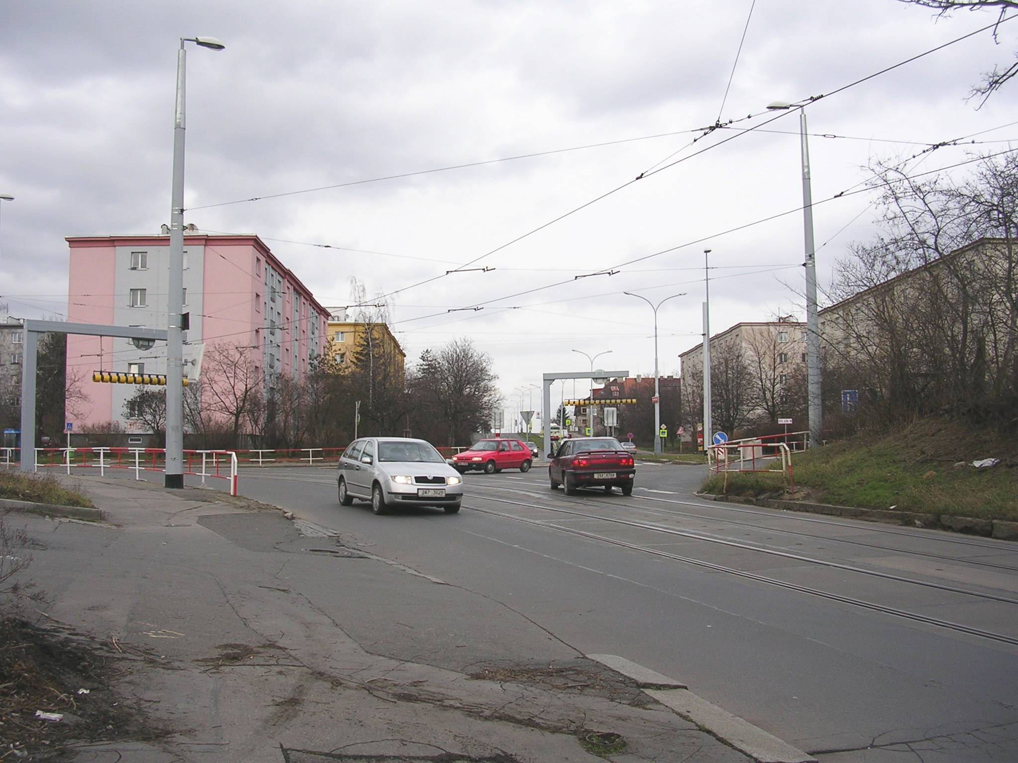 Strašnice, Prague, the Czech Republic.